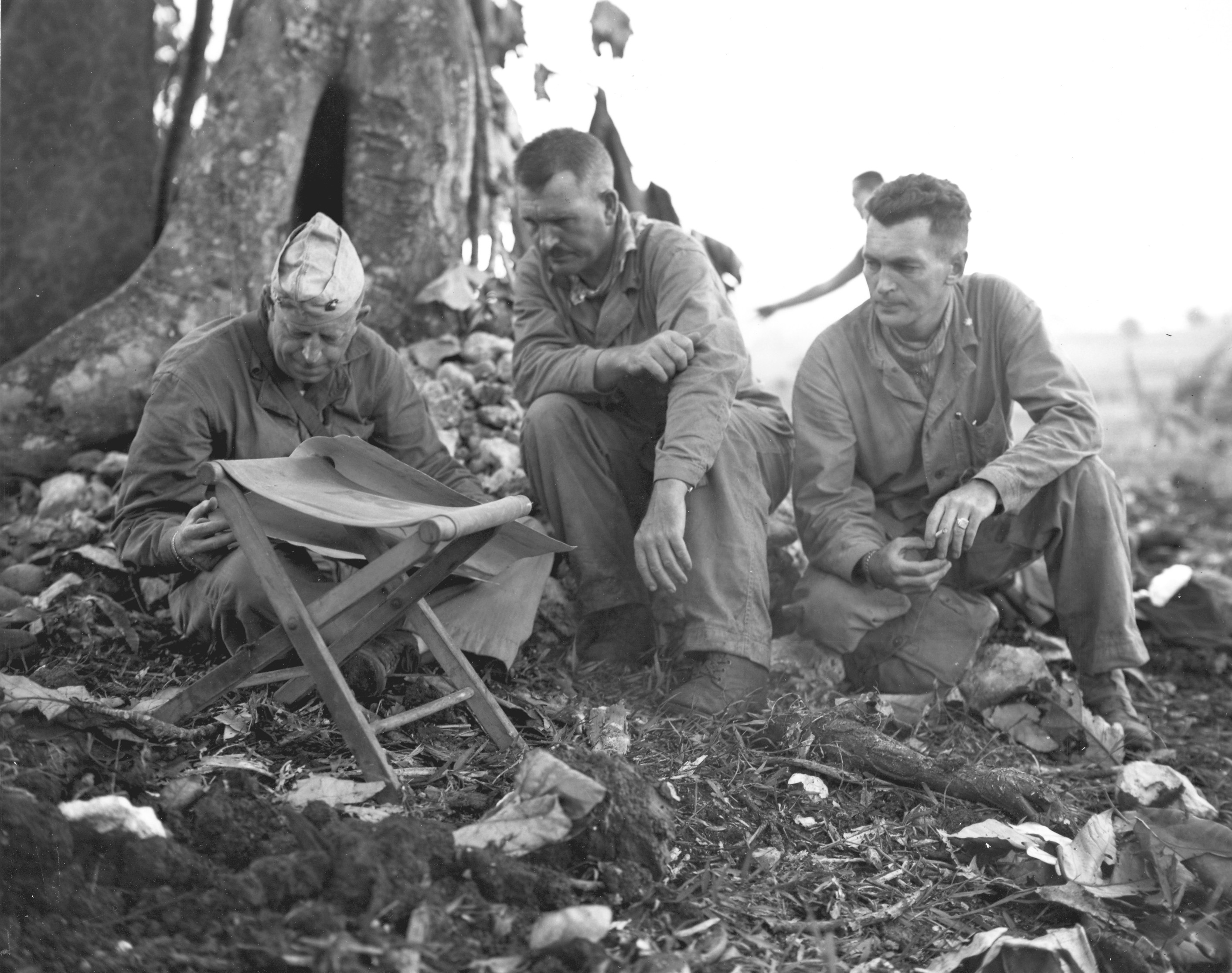 Brigadier General Merritt A. Edson, Assistant Division Commander, 2nd Marine Division, confers with Colonel James P. Riseley (CO 6th Marines) and LTC Kenneth F. McLeod (EXO 6th Marines) in June 1944 at Saipan. DEFENSE DEPT PHOTO (MARINE CORPS) 82481